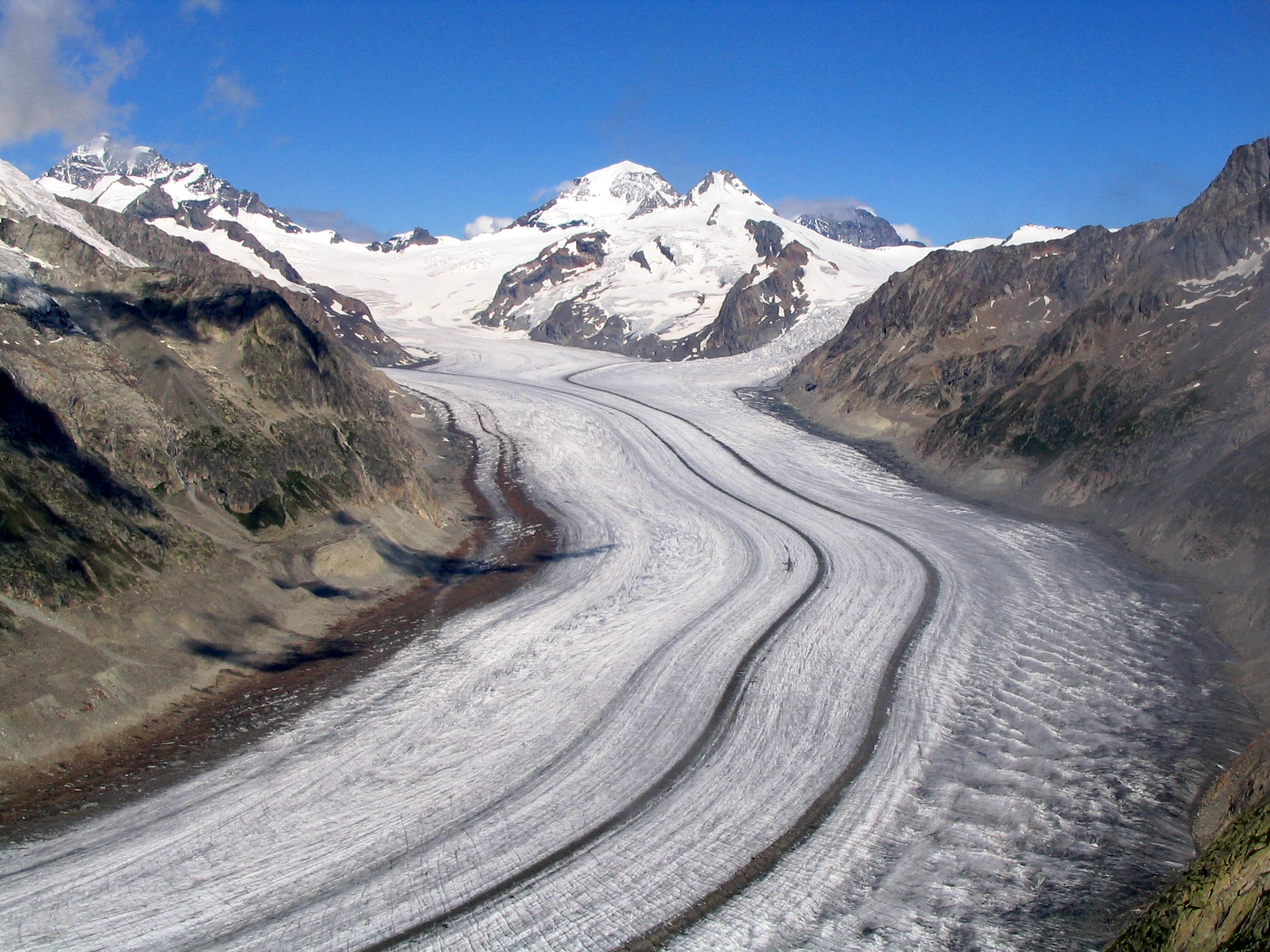 Grosser Aletschgletscher (Bernese Alps), view from Eggishorn (2.927 m), in the background Jungfrau (4.158 m), Jungfraujoch (3.454 m), Mönch (4.099 m), Trugberg and Eiger (3.970 m). For camera information and shooting conditions see the EXIF info fields, contained in the file.